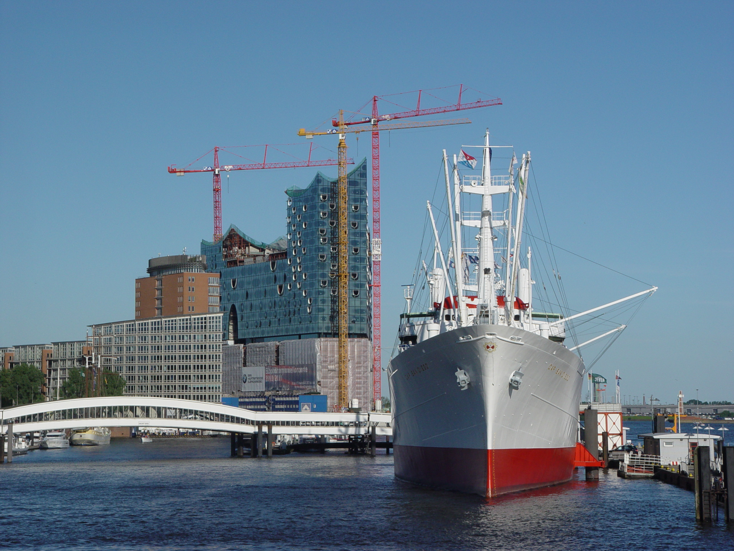 Germany, Hamburg, Elbphilharmonie and Cap San Diego